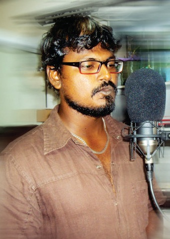 Kopee Isse at dubbing session for the movie Sazaa